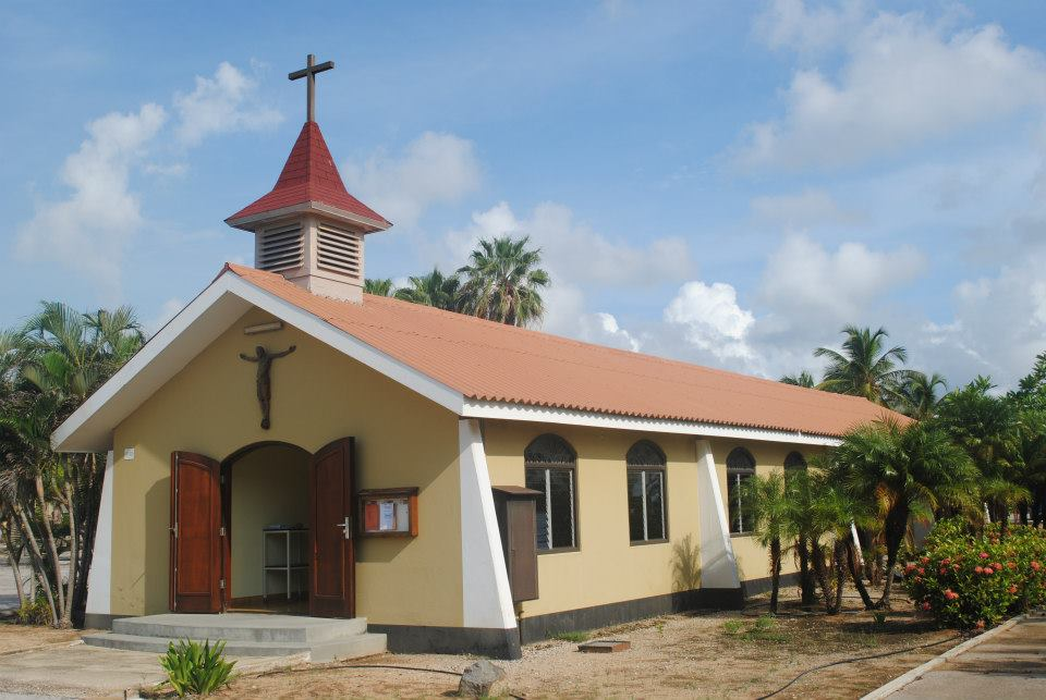 Kapel Kazerne Savaneta